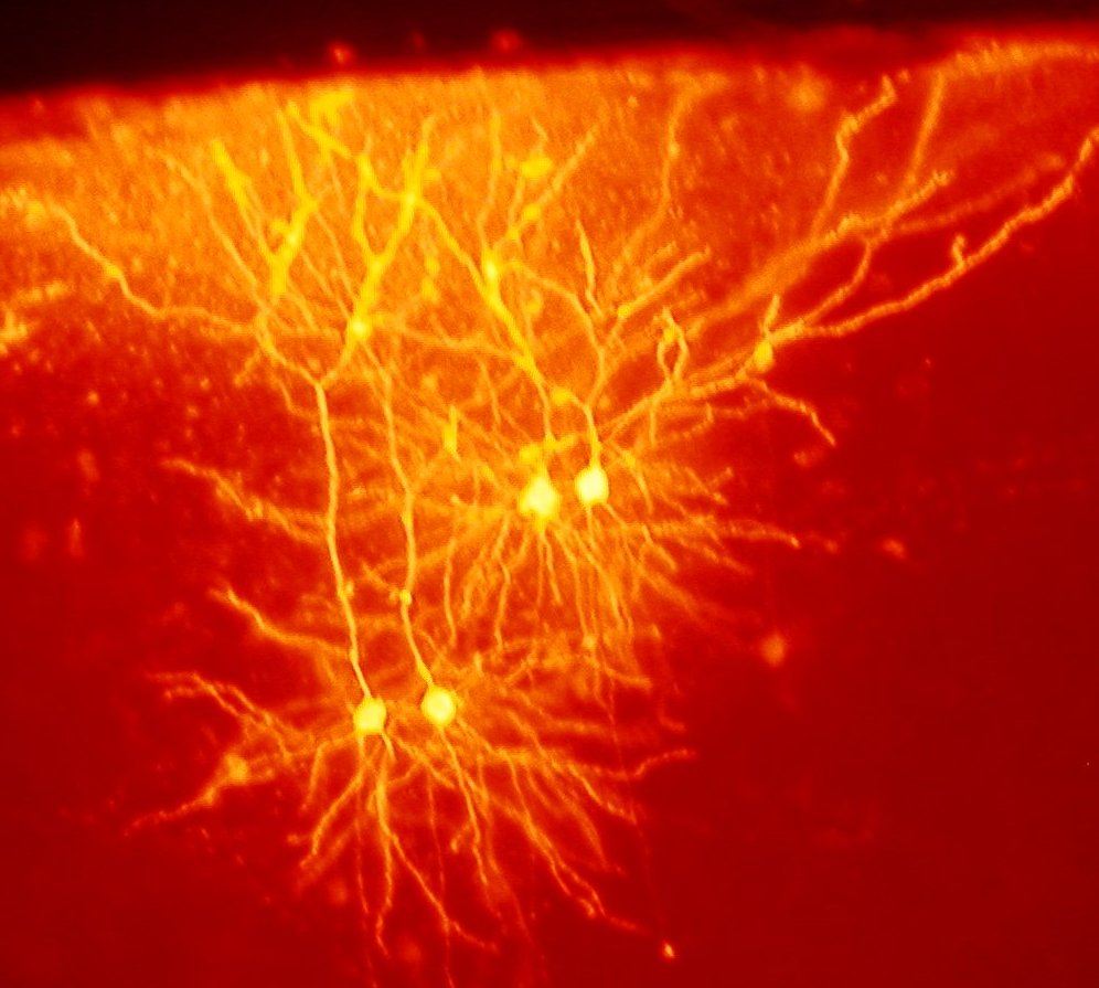 Tyramide filled neurons from the cingulate cortex of mouse brain. The two larger cells on the left are in upper layer 5, and the two on the right are in layer 2/3. Image taken by holding a digital camera against the eyepiece of a dissecting scope.